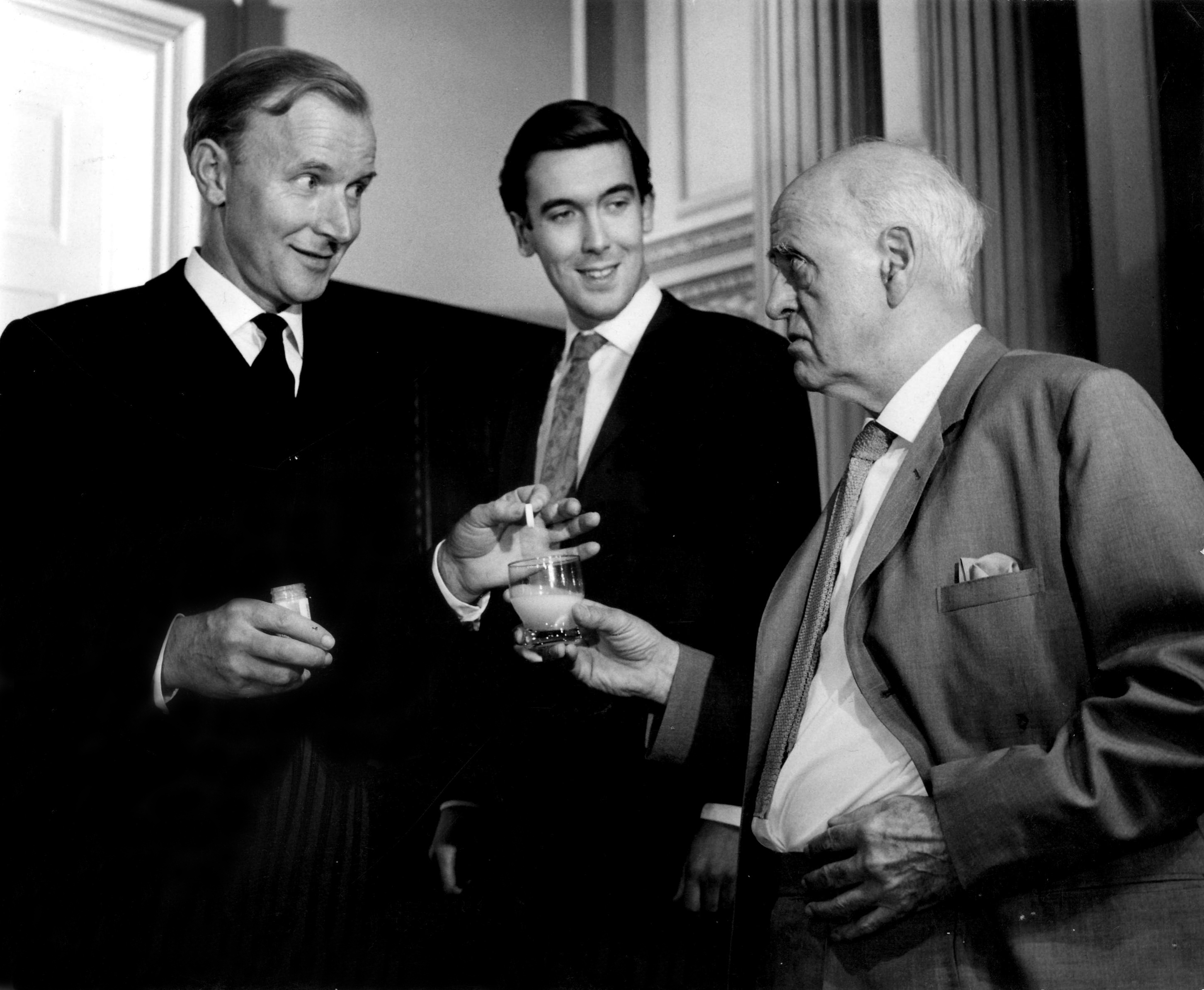 Number 10 (play) promotional photograph for Strand Theatre, London in August 1967. Robert Sidaway (centre) with Alastair Sim